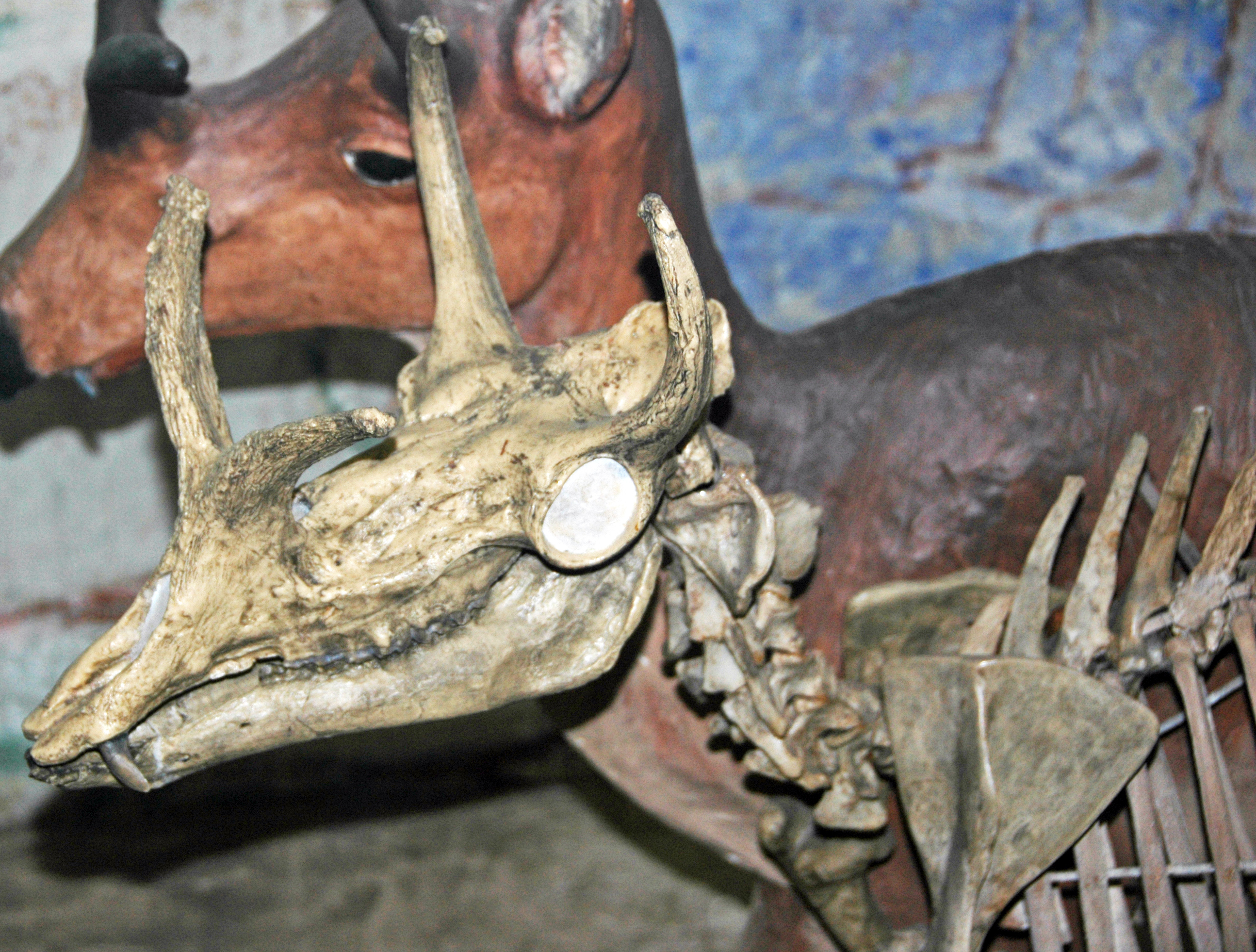 Syndyoceras cooki Barbour, 1905 - fossil mammal skeleton from the Miocene of Nebraska, USA. (public display, Nebraska State Museum of Natural History, Lincoln, Nebraska, USA) From museum signage: Four-horned ruminant Syndyoceras belongs to an extinct group of artiodactyls. Fossil remains of this ruminant have been found only in Nebraska and Wyoming, and the specimen from Nebraska displayed here is the only mounted specimen recorded. Syndyoceras is a distant relative of the modern antelope, giraffe, deer, and cow. The male is unusual in that is possesses four horns, which probably were very effective for protection. Classification: Animalia, Chordata, Vertebrata, Mammalia, Artiodactyla, Ruminantia, Protoceratidae Stratigraphy: Daimonelix beds, Marsland Formation, Middle Miocene Locality: bluffs at the James Cook Ranch, western side of the Niobrara River, near the town of Agate, Sioux County, northwestern Nebraska, USA See info. at